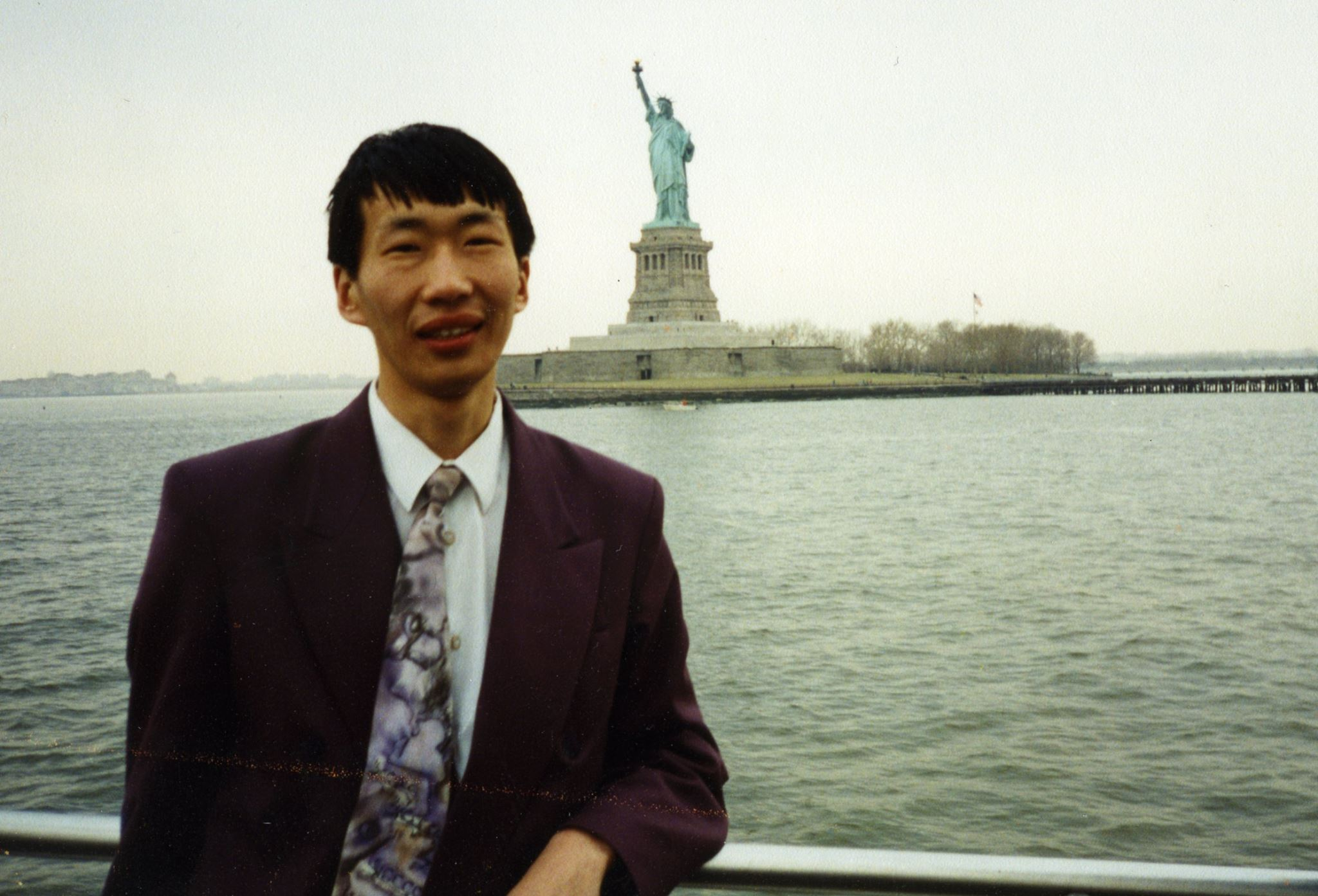 АНУ 1996